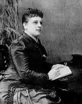 Julia Ames, american journalist, and spirit communicating with W. T. Stead after her death